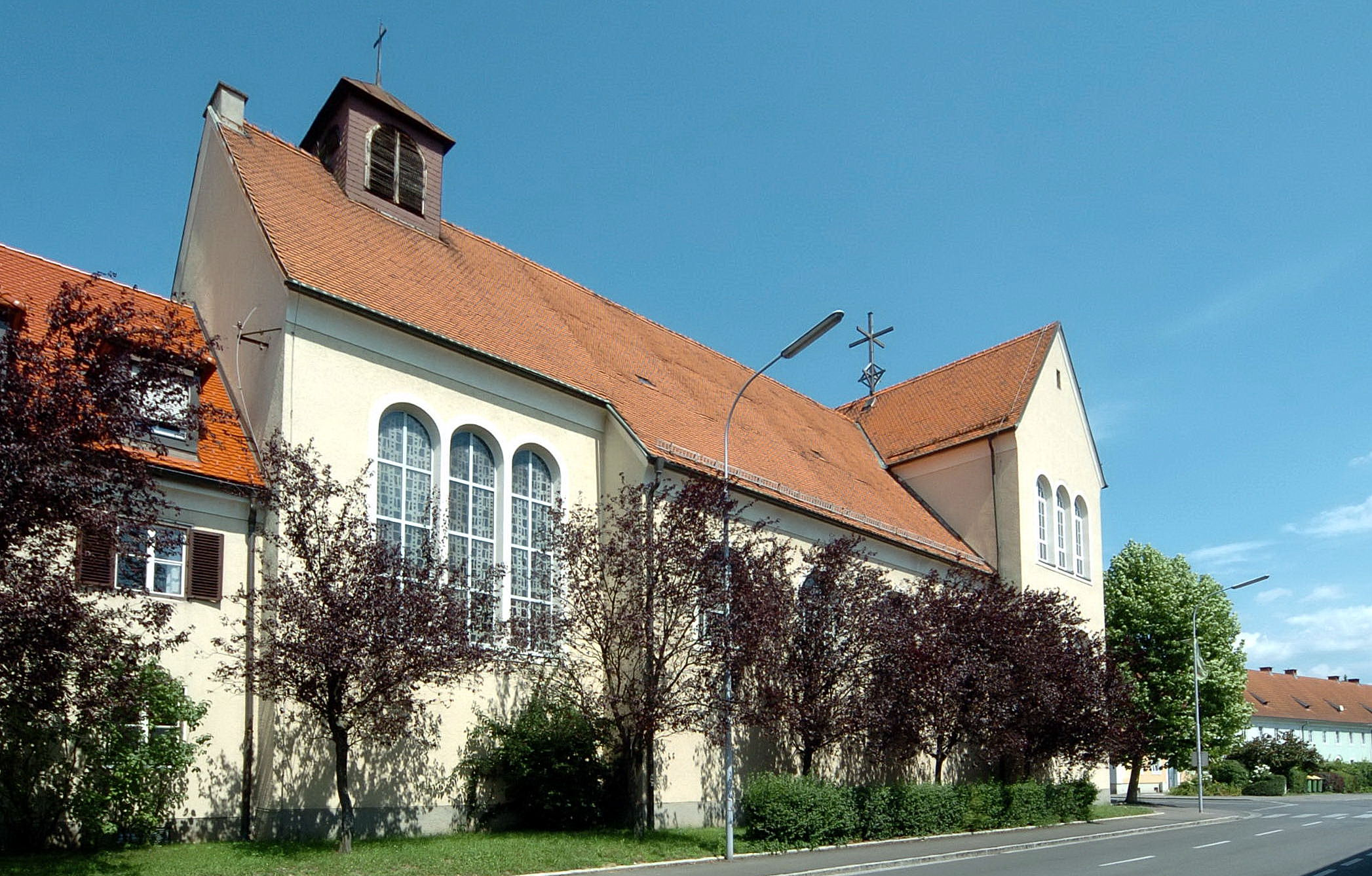 Parish church "Saint Joseph" in the 12th district Sankt Martin-Waidmannsdorf in the capital Klagenfurt, Carinthia, Austria